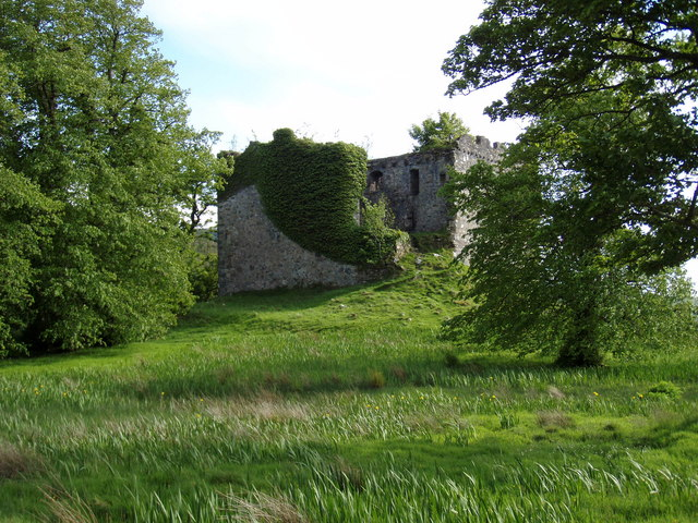 Old Castle Lachlan The castle is a scheduled ancient monument and requires stabilisation. The Lachlan Trust are looking at the possibility of undertaking this work and an architect's report has been commissioned.